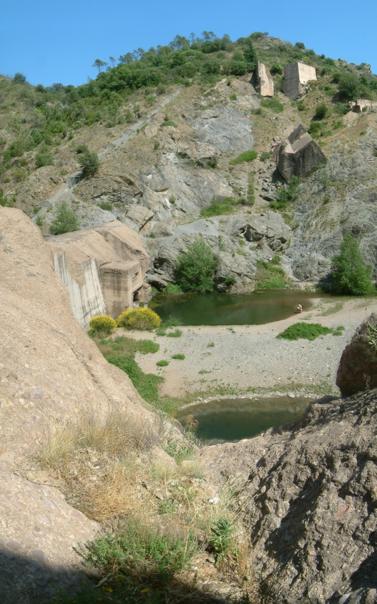 Barrage de Malpasset Fréjus France destroyed December 2, 1959